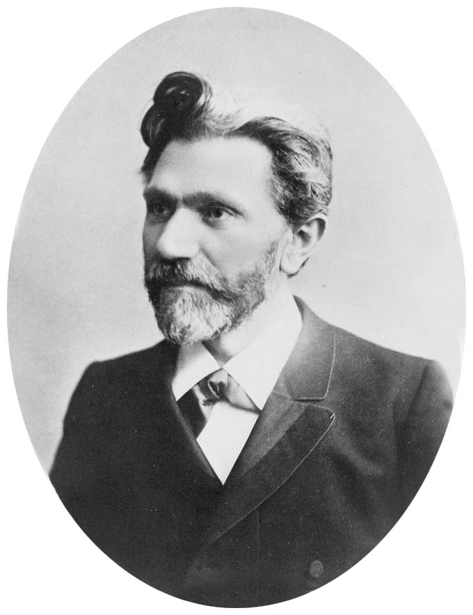 August Bebel, head-and-shoulders portrait, facing left, in oval